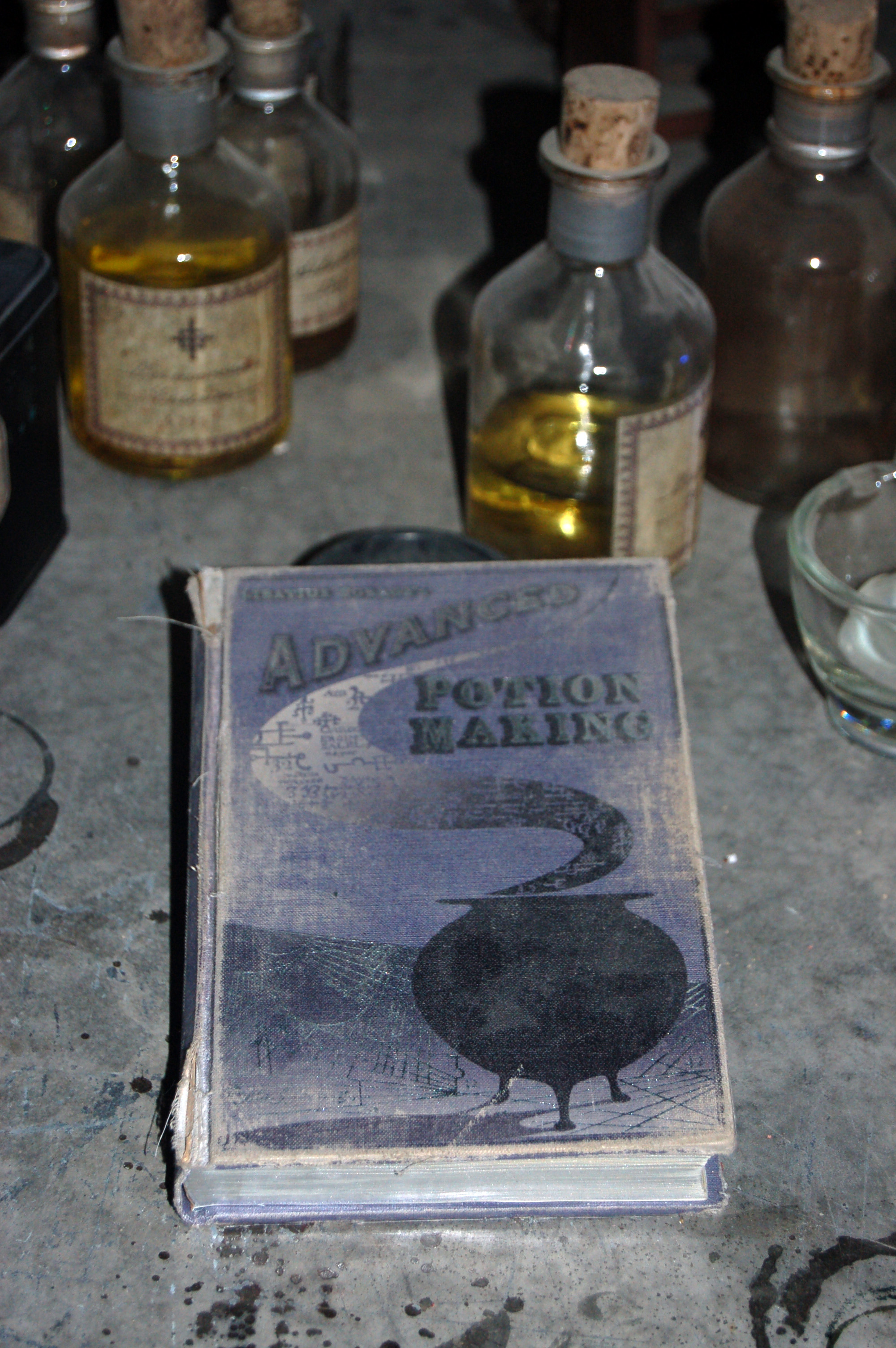 Potions Classroom